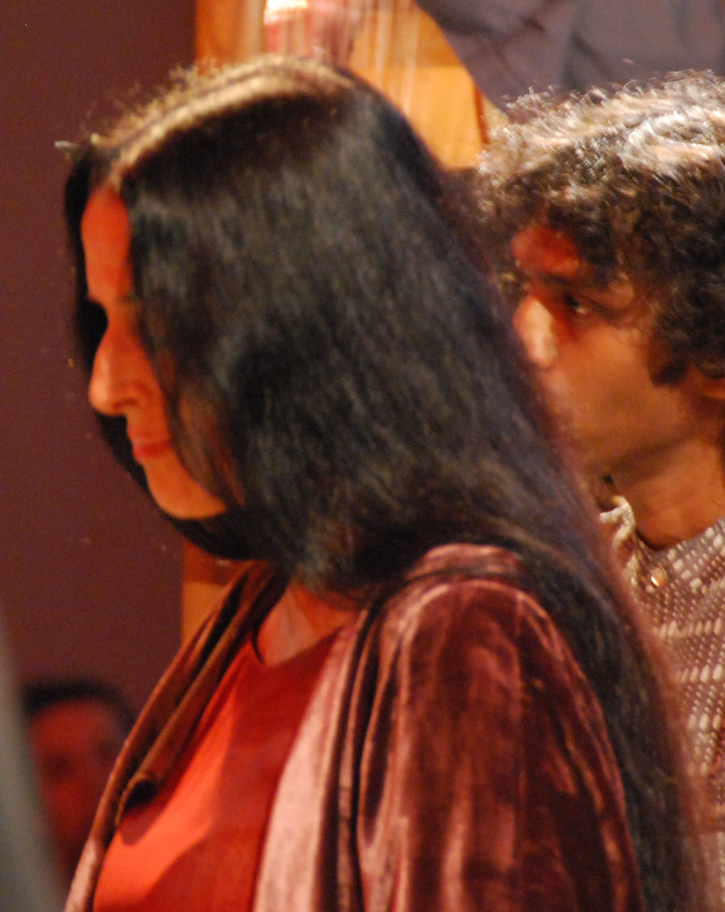 Montserrat Figueras, Kraków, 31.03.2010, Misteria Paschalia Festival.